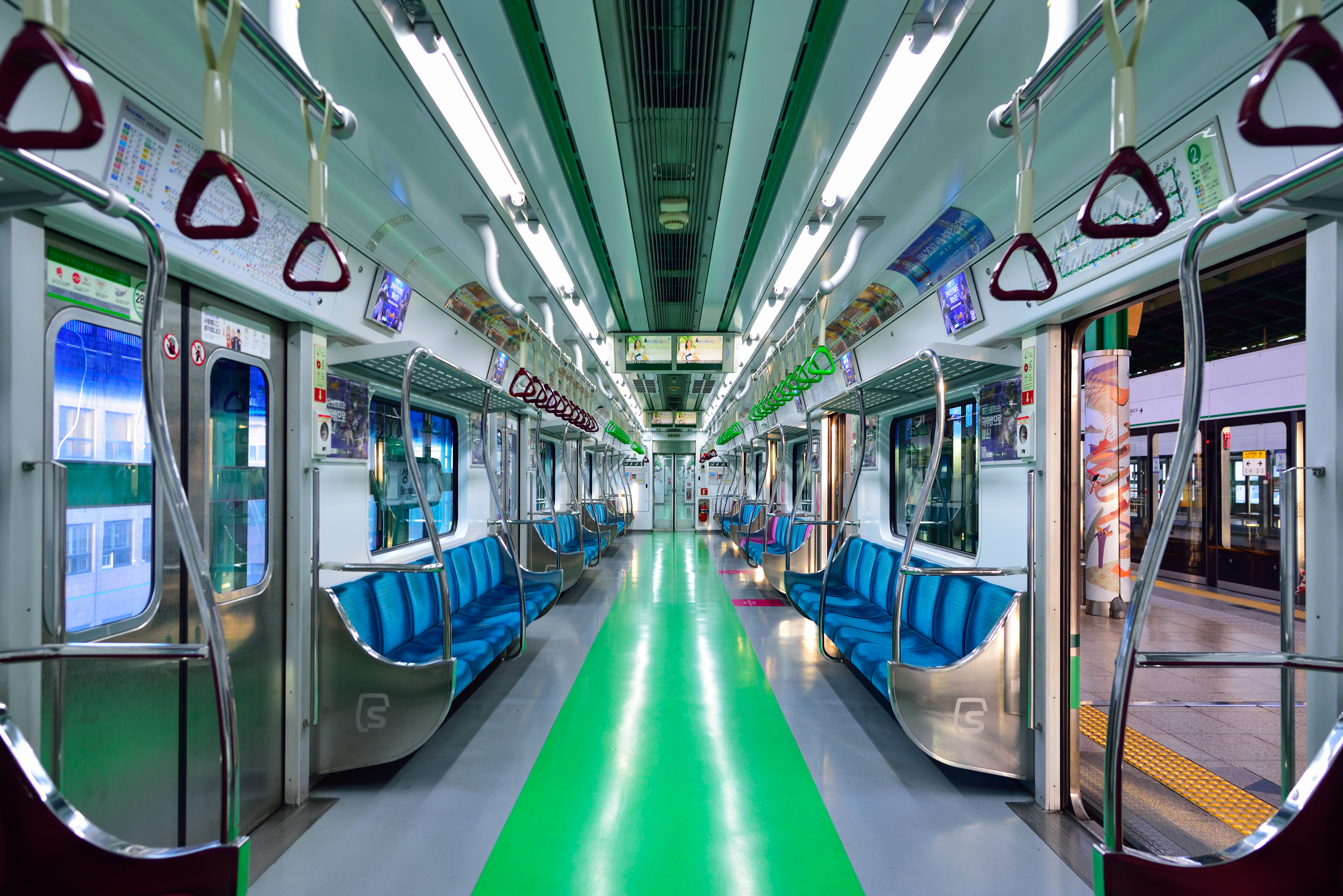 Seoul Metro Class 2000